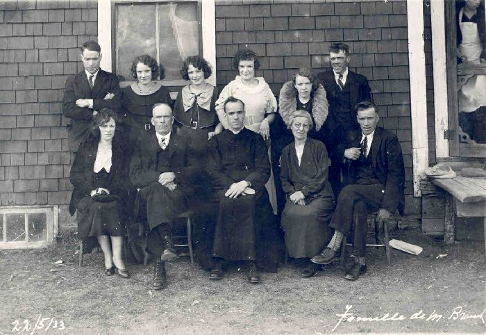 The Branch family of Burnsville, New Brunswick, Canada, including famed Édith Pinet.